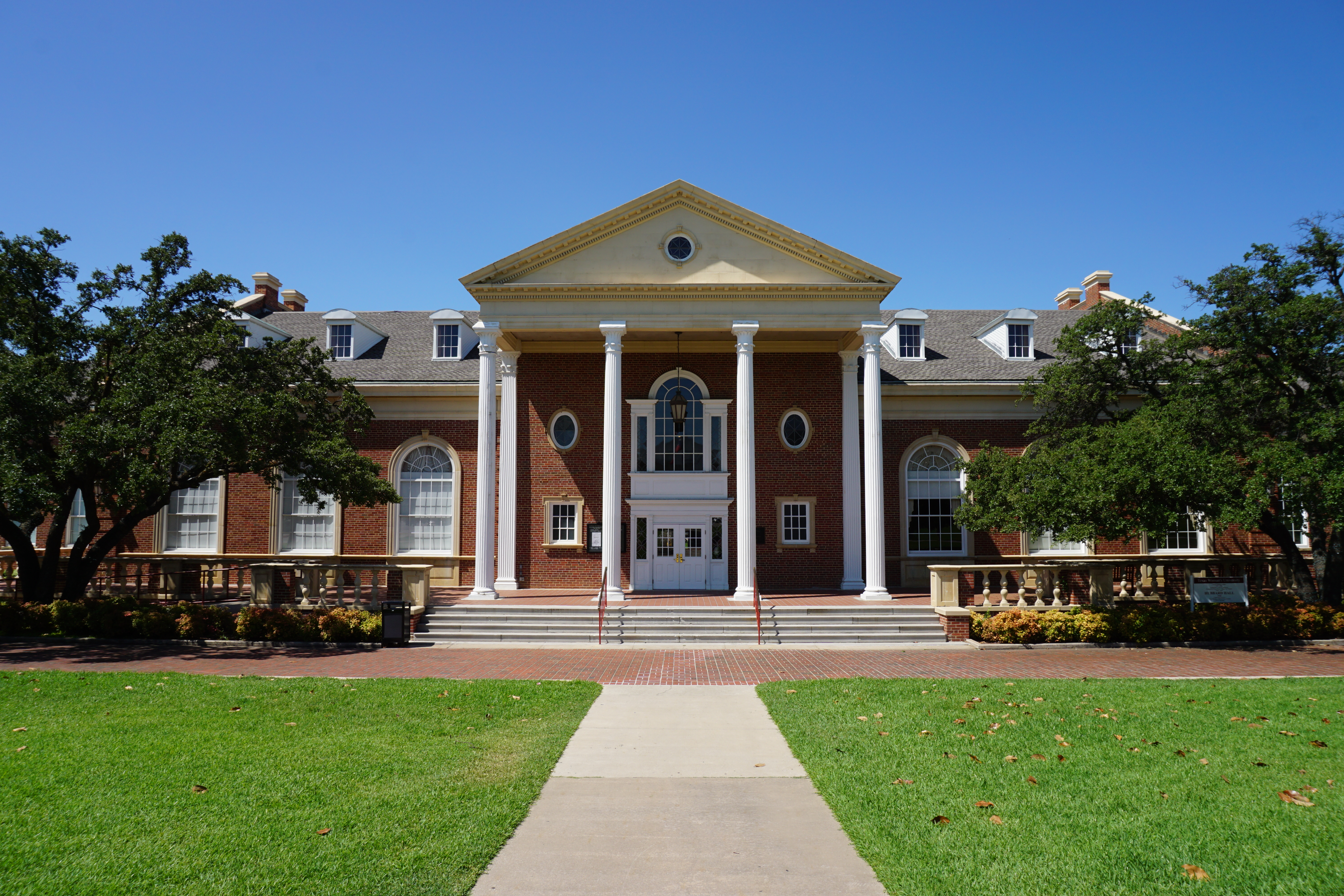 Hubbard Hall on the campus of Texas Woman's University in Denton, Texas (United States).